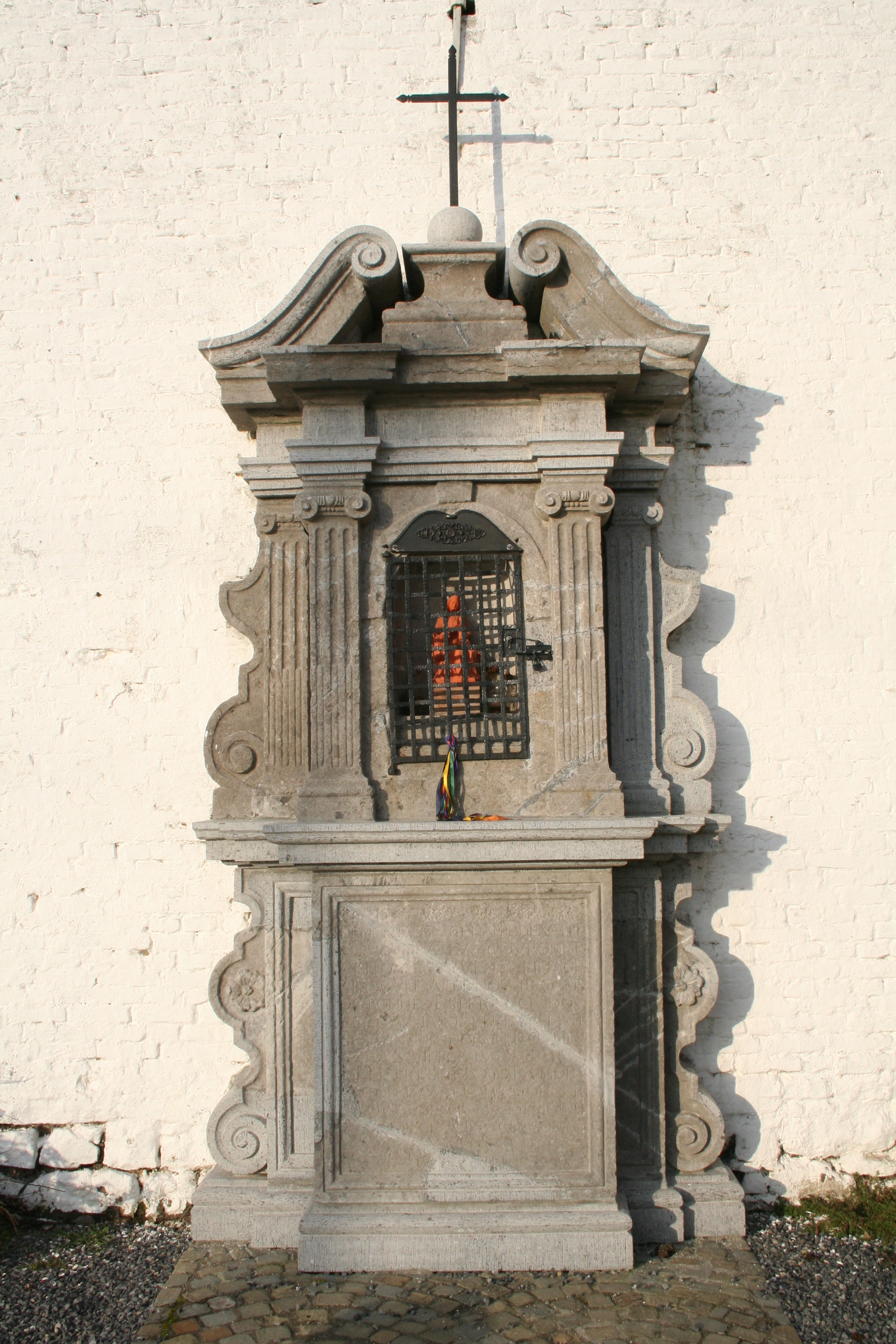 Vellereille-les-Brayeux (Belgium), the chapel called « de Louis XI » (1704) at the Bonne Espérance abbey.